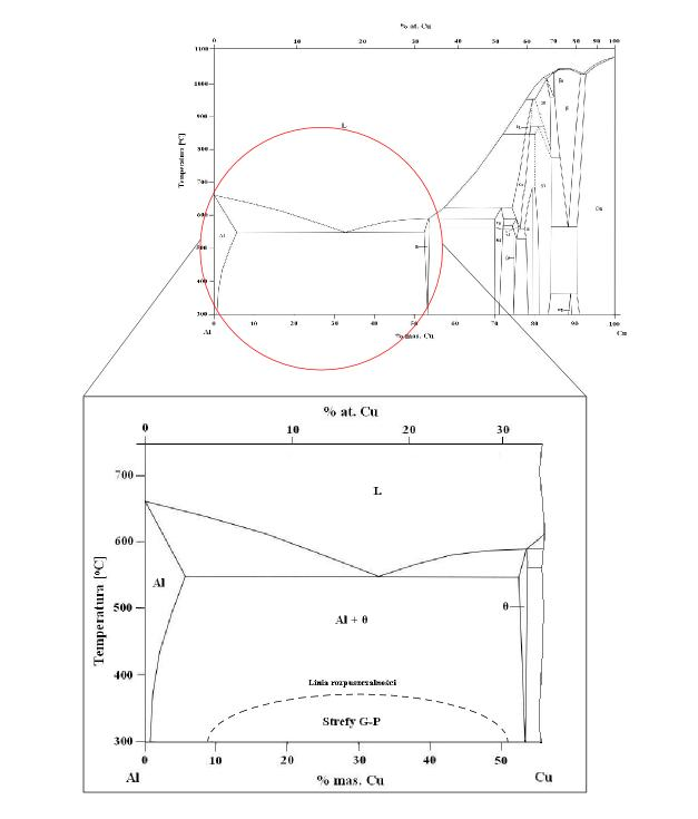 Binary phase diagram of AlCu with G-P zones. Attention: Diagram have illustrative and educational value. Some of the points and temperatures ​​over time may change due to the use better equipment and get much more pure alloys. Diagram made ​​on the basis of numerous dates from the literature in Polish and English language.